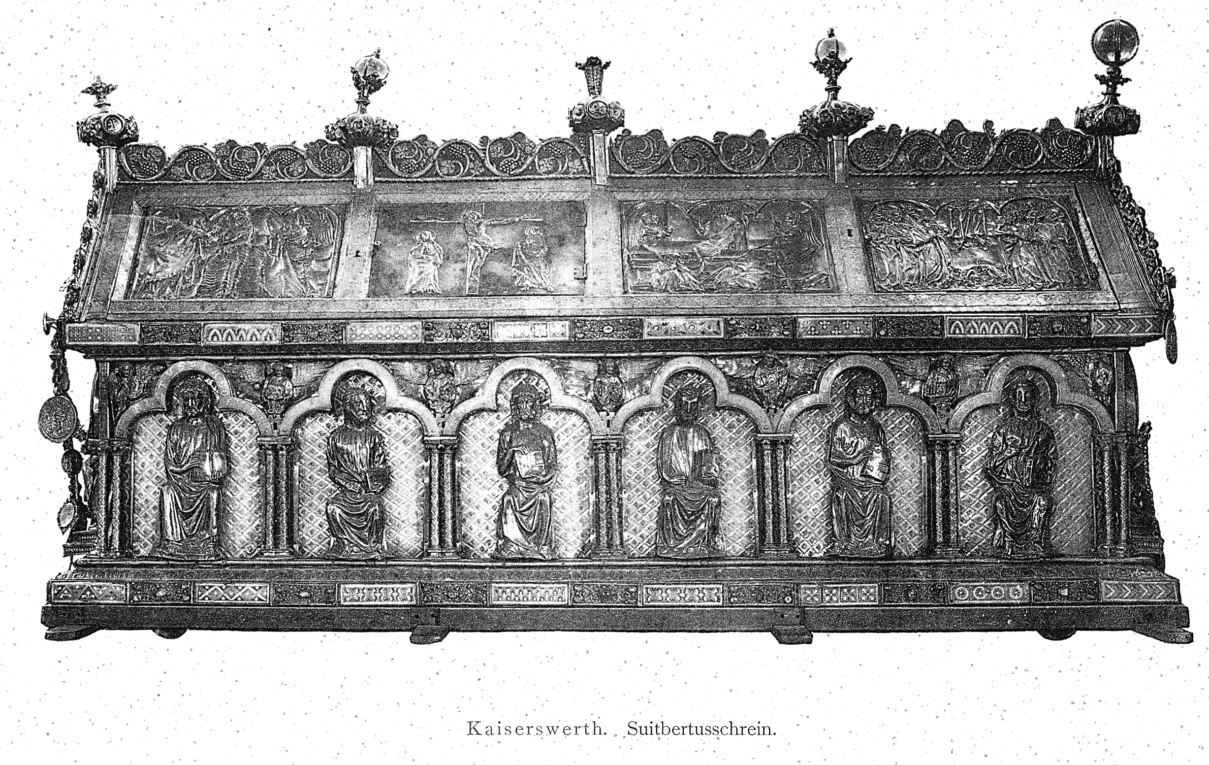 t